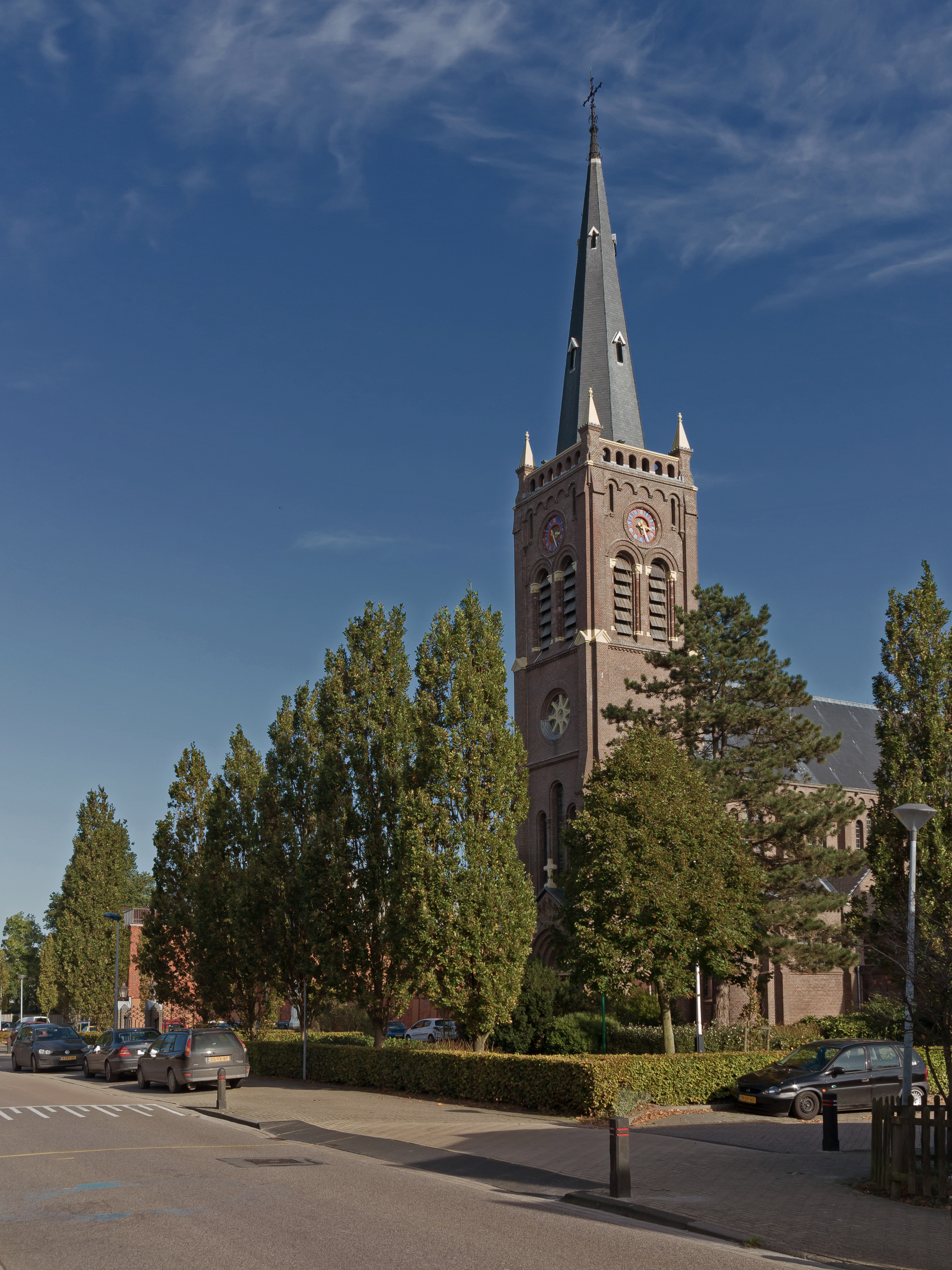 Obdam, church: de Sint Victorkerk